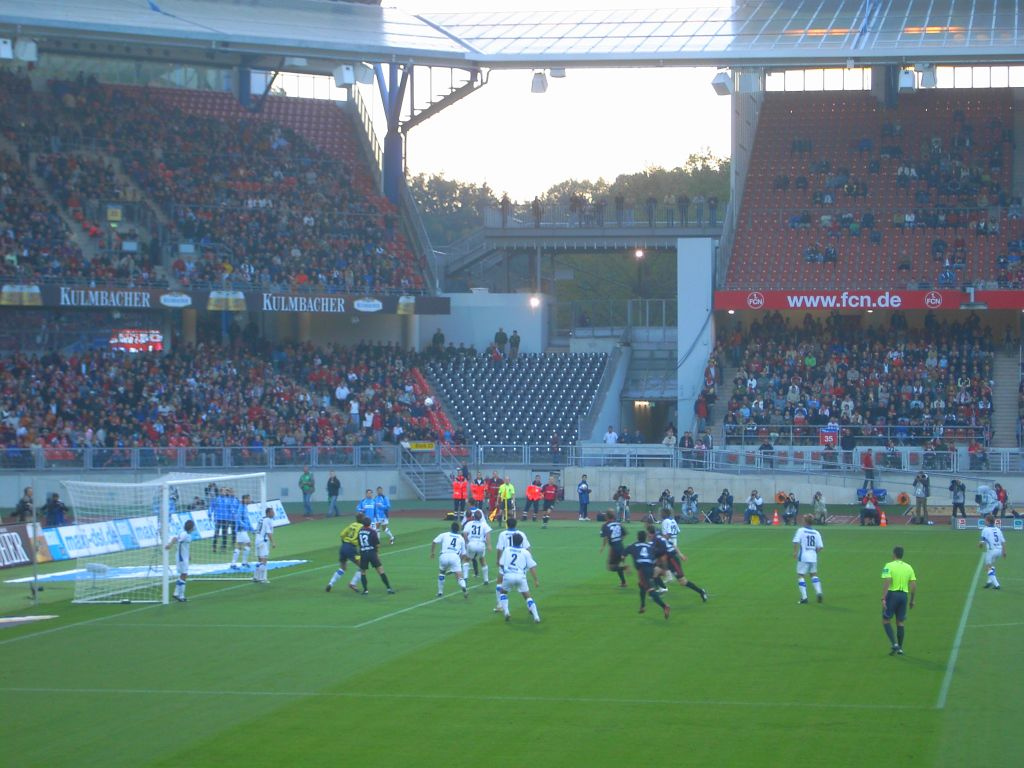 Image of easyCredit-Stadion (Nuremberg, Germany)